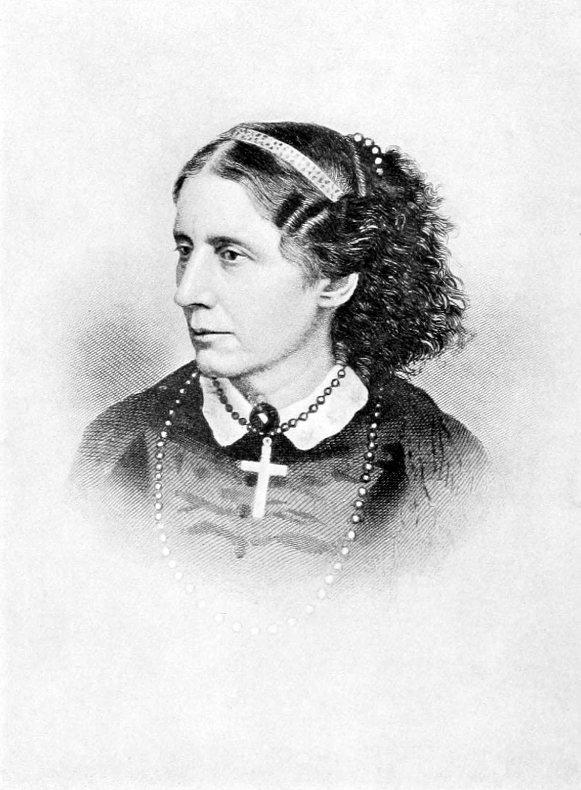 Engraved portrait of United States author Harriet Beecher Stowe at mid-life